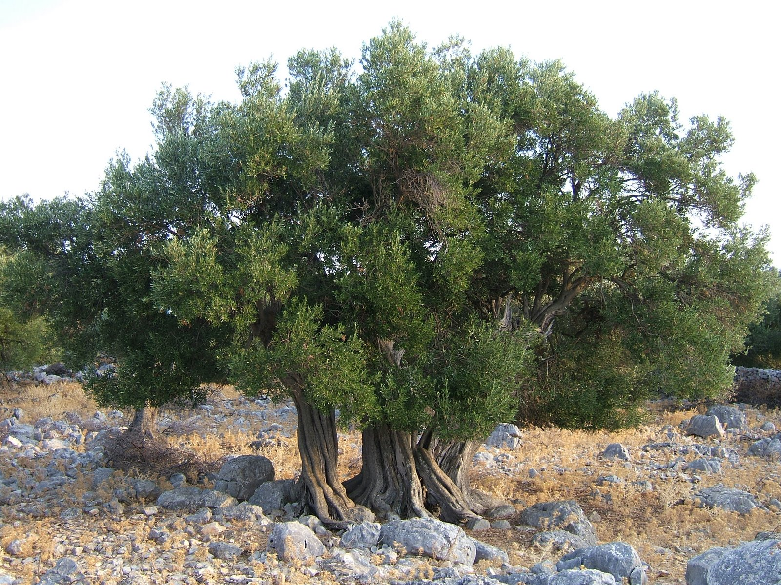 Millennial olive trees in place Lun, Croatia.